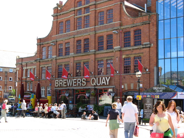 Brewers Quay, Hope Square, Weymouth, Dorset, England. The Brewers Quay shopping centre.